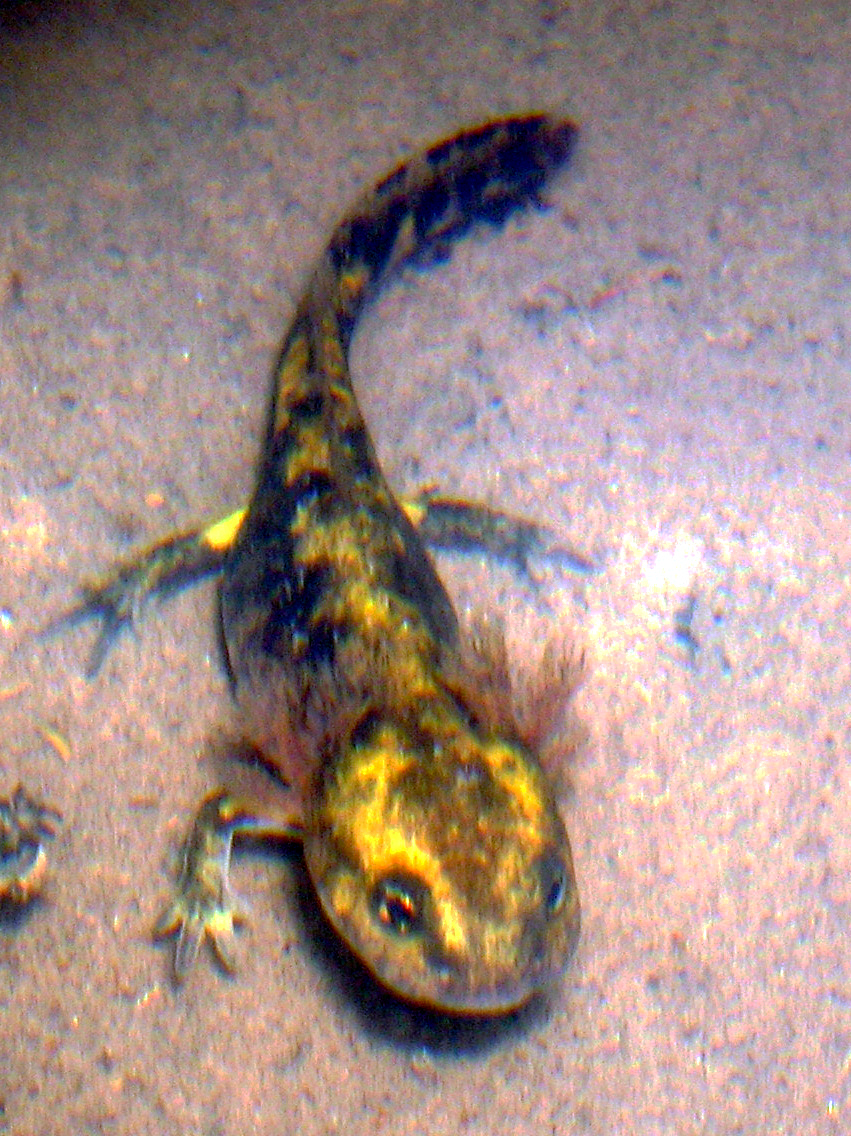 Larva of Salamandra salamandra in small stream at the Bunderbos Netherlands